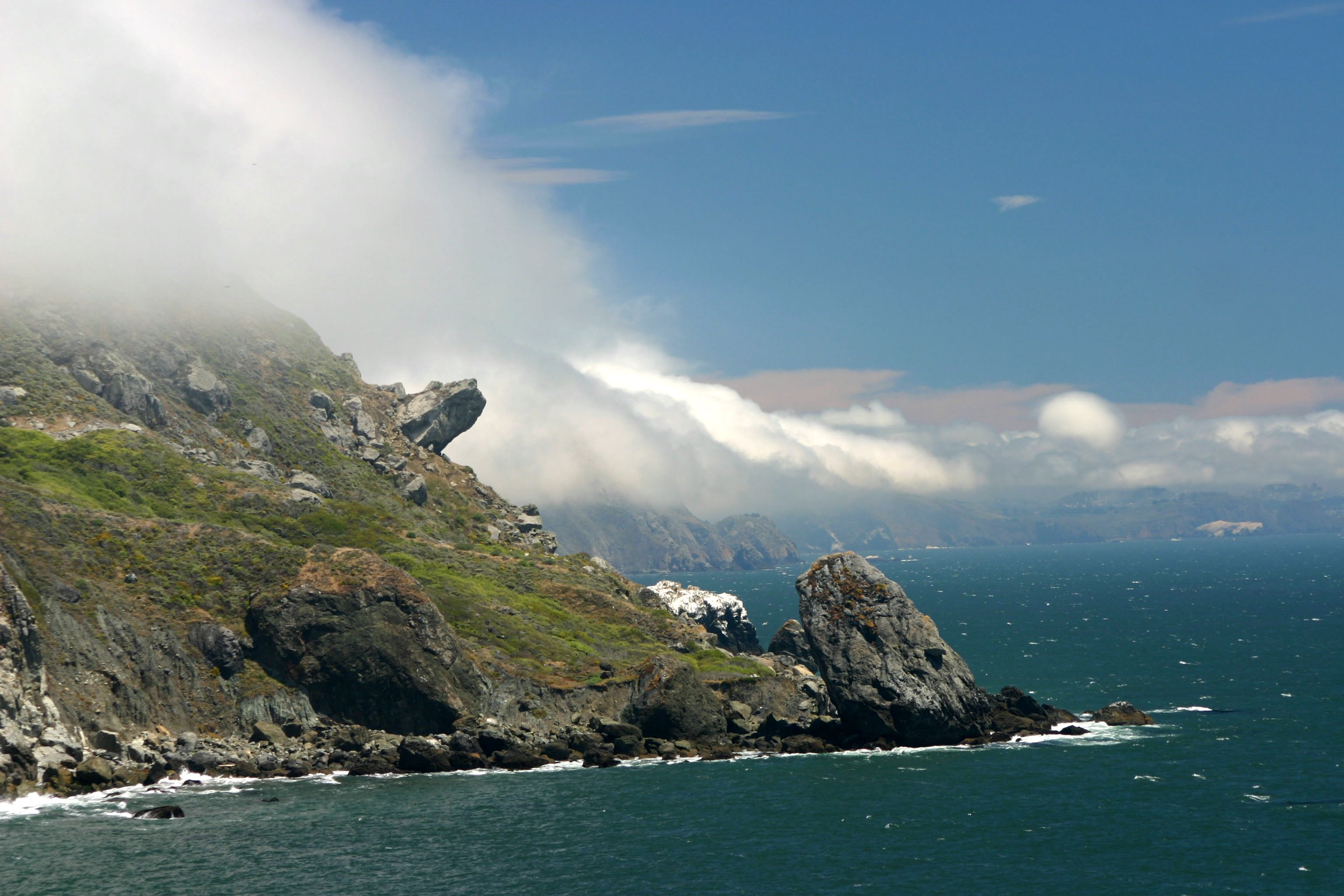 Mt. Tam coastline in the Golden Gate National Recreation Area, "stuck in the coast"